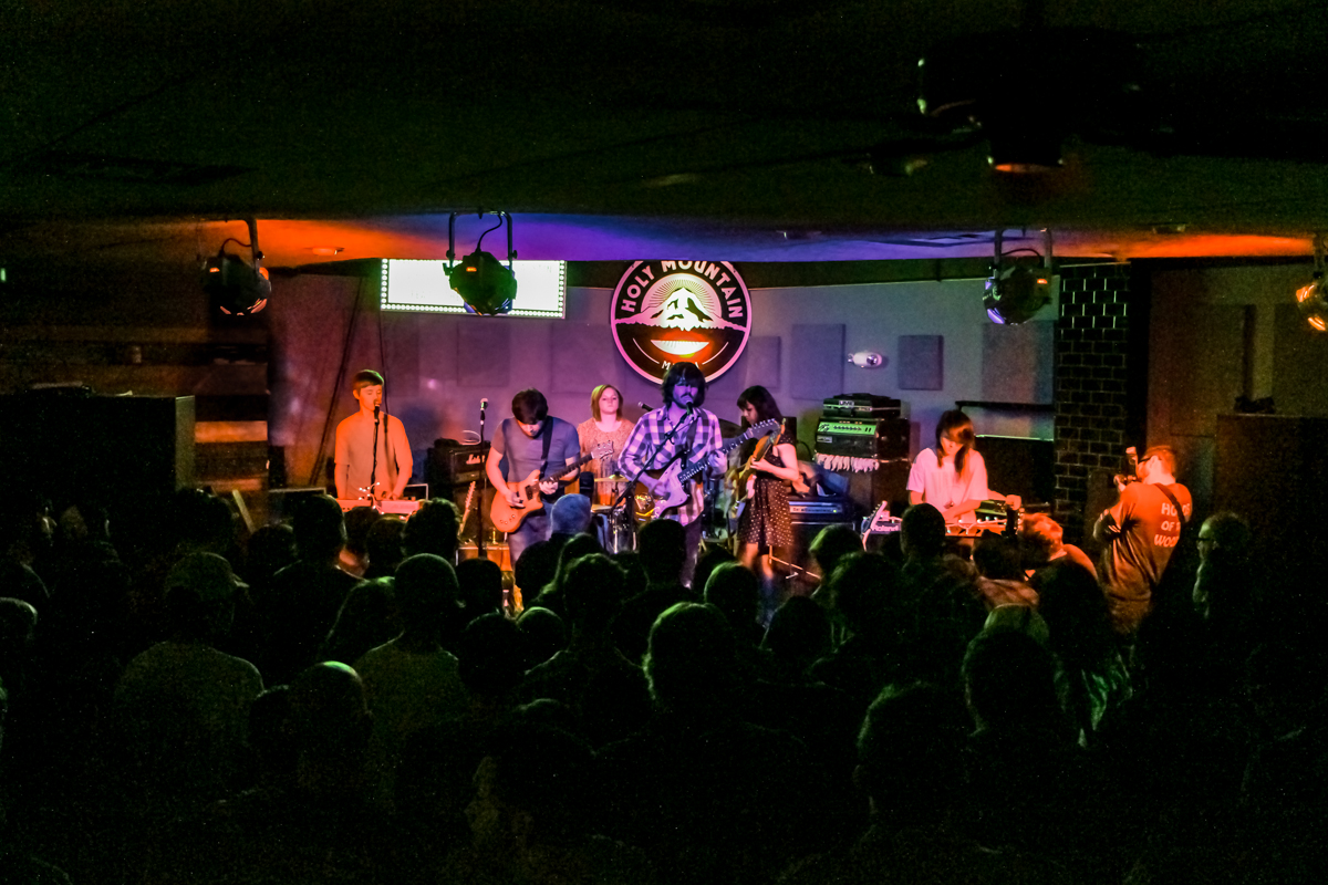 Austin Band The Sour Notes perform to a packed house at Holy Mountain for a Red Bull sponsored event.